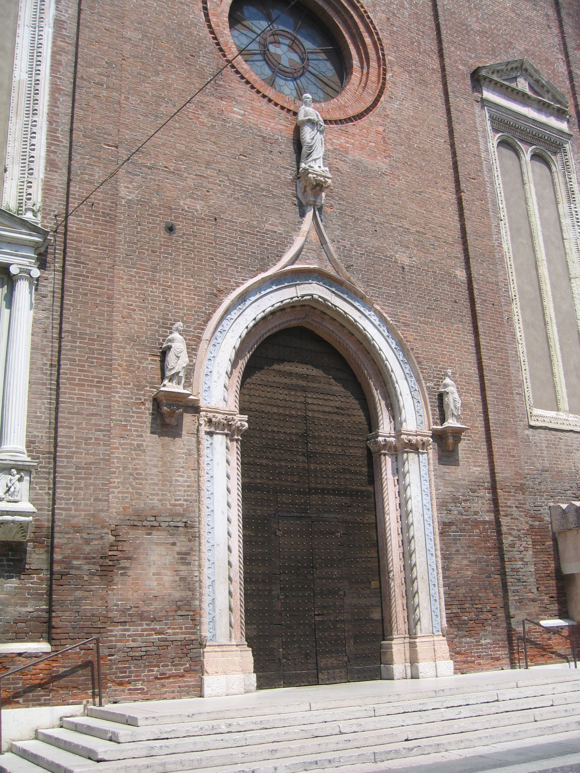 St. Eufemia in Verona